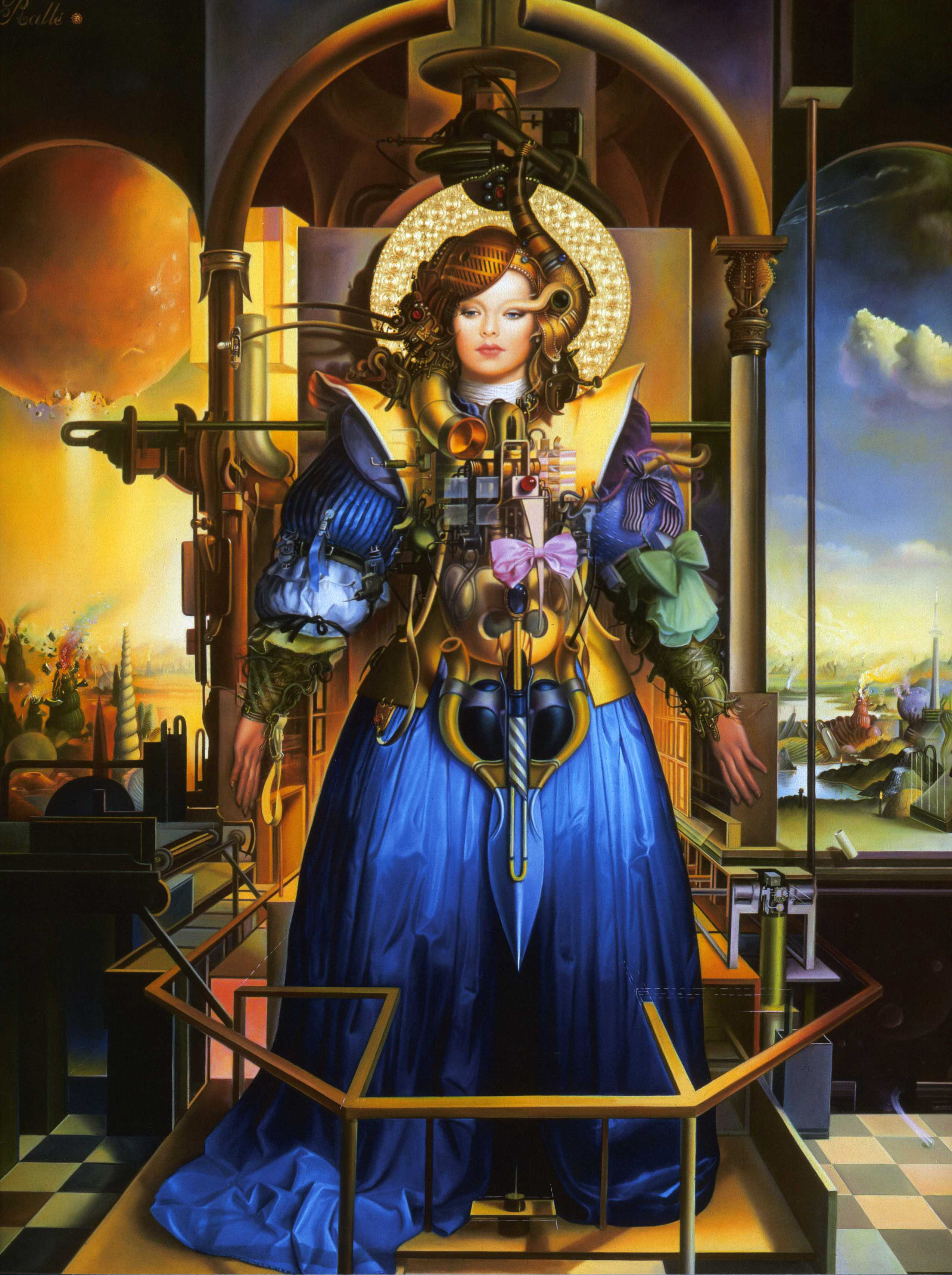 Lady in Blue; Oil on Board